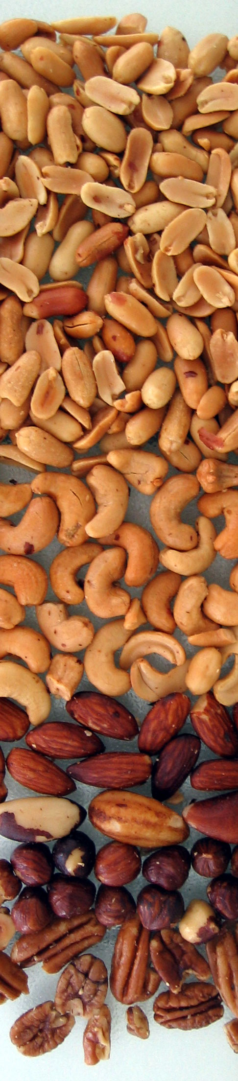 Mixed nuts